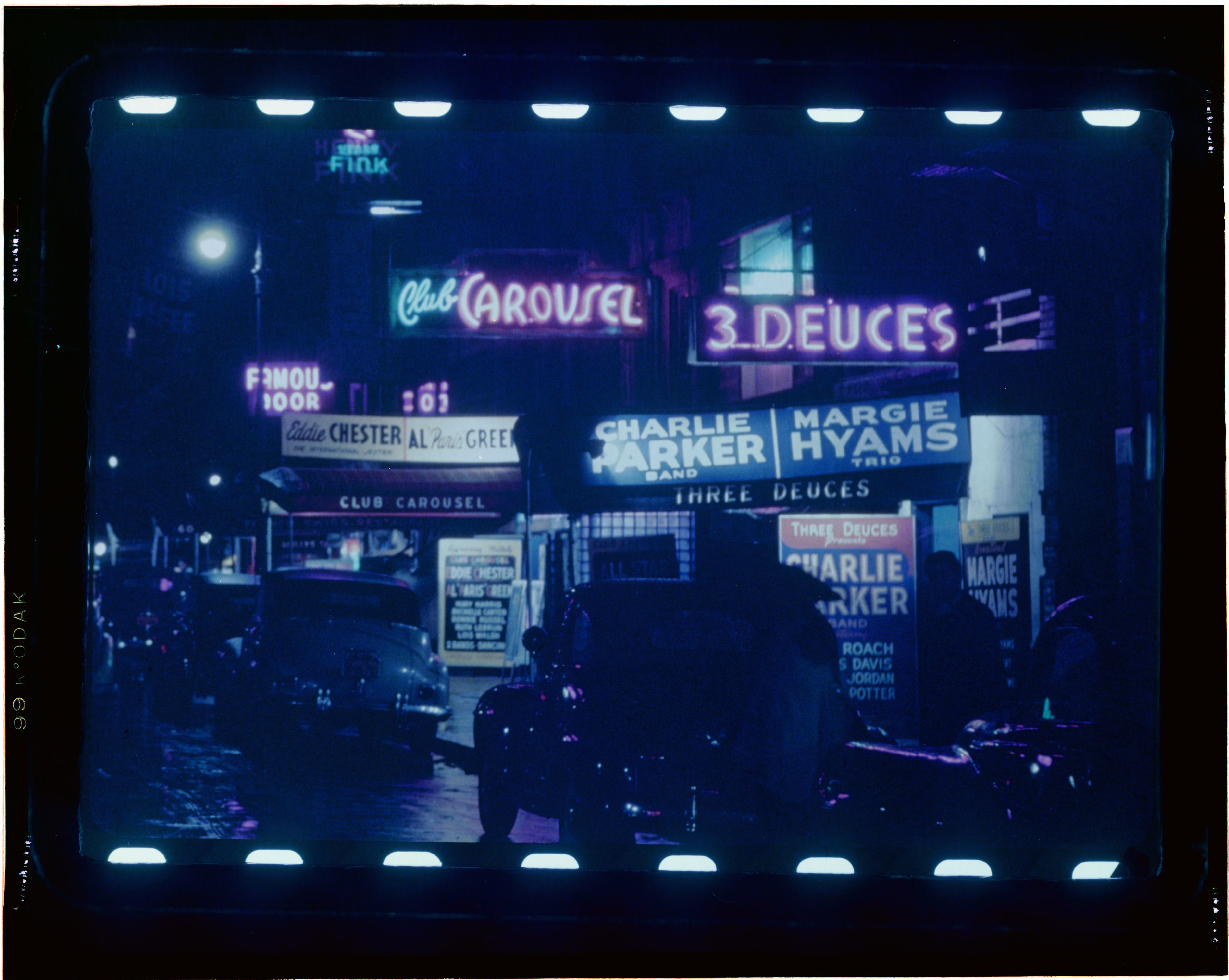 Gottlieb, William P., 1917-, photographer. [52nd Street, New York, N.Y., ca. 1948] 1 negative : color. ; 4 x 5 in. Notes: Gottlieb Collection Assignment No. 465 Reference print available in Music Division, Library of Congress. Purchase William P. Gottlieb Forms part of: William P. Gottlieb Collection (Library of Congress). Subjects: Fifty-second Street (New York, N.Y.)--1940-1950. Format: Cityscape photographs--1940-1950. Cityscape photographs--1940-1950. Film negatives--1940-1950. Rights Info: Mr. Gottlieb has dedicated these works to the public domain, but rights of privacy and publicity may apply. Repository: (negative) Library of Congress, Prints & Photographs Division, Washington D.C. 20540 USA, (reference print) Library of Congress, Music Division, Washington D.C. 20540 USA, Part Of: William P. Gottlieb Collection (DLC) 99-401005 General information about the Gottlieb Collection is available at Persistent URL: Call Number: LC-GLB03- 0277 This work is from the William P. Gottlieb collection at the Library of Congress. Rights and restrictions.In accordance with the wishes of William Gottlieb, the photographs in this collection entered into the public domain on February 16, 2010.